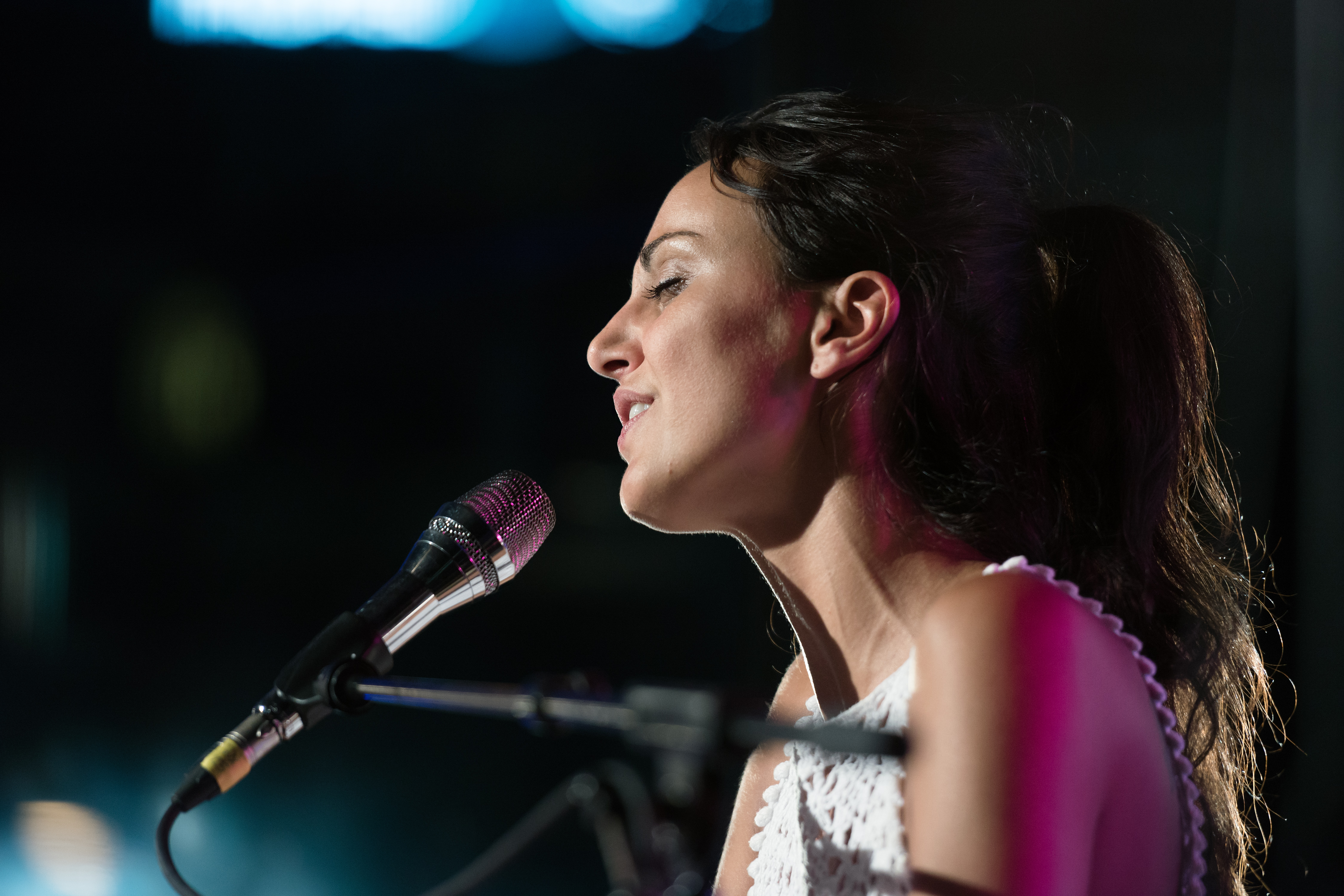 SAEDI - concert at Akustik Woodstock Festival 2016 at HEUER am Karlsplatz in Vienna, Austria.